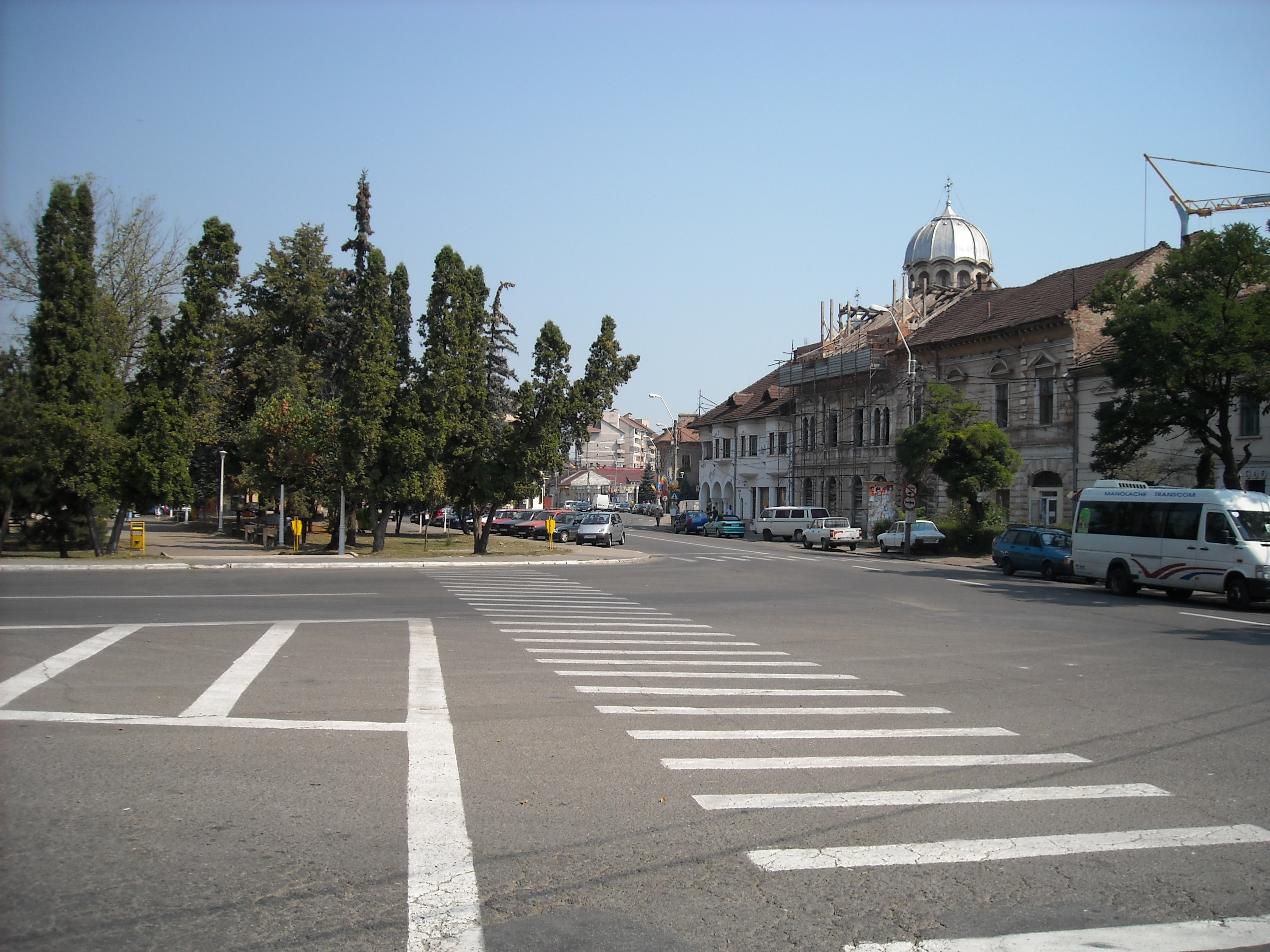 main place, Hunedoara town, Romania